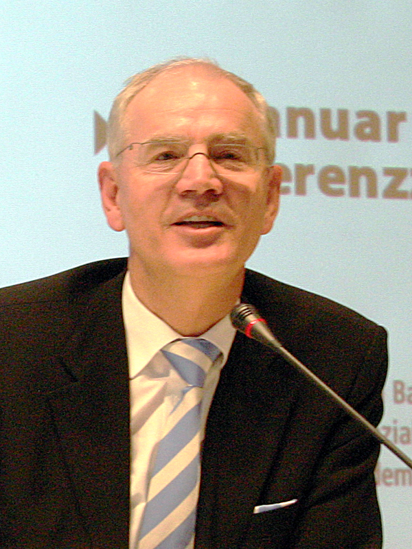 Siegfried Balleis, Lord Mayor of Erlangen, Germany